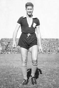 Héctor Guidi during a match v Independiente.